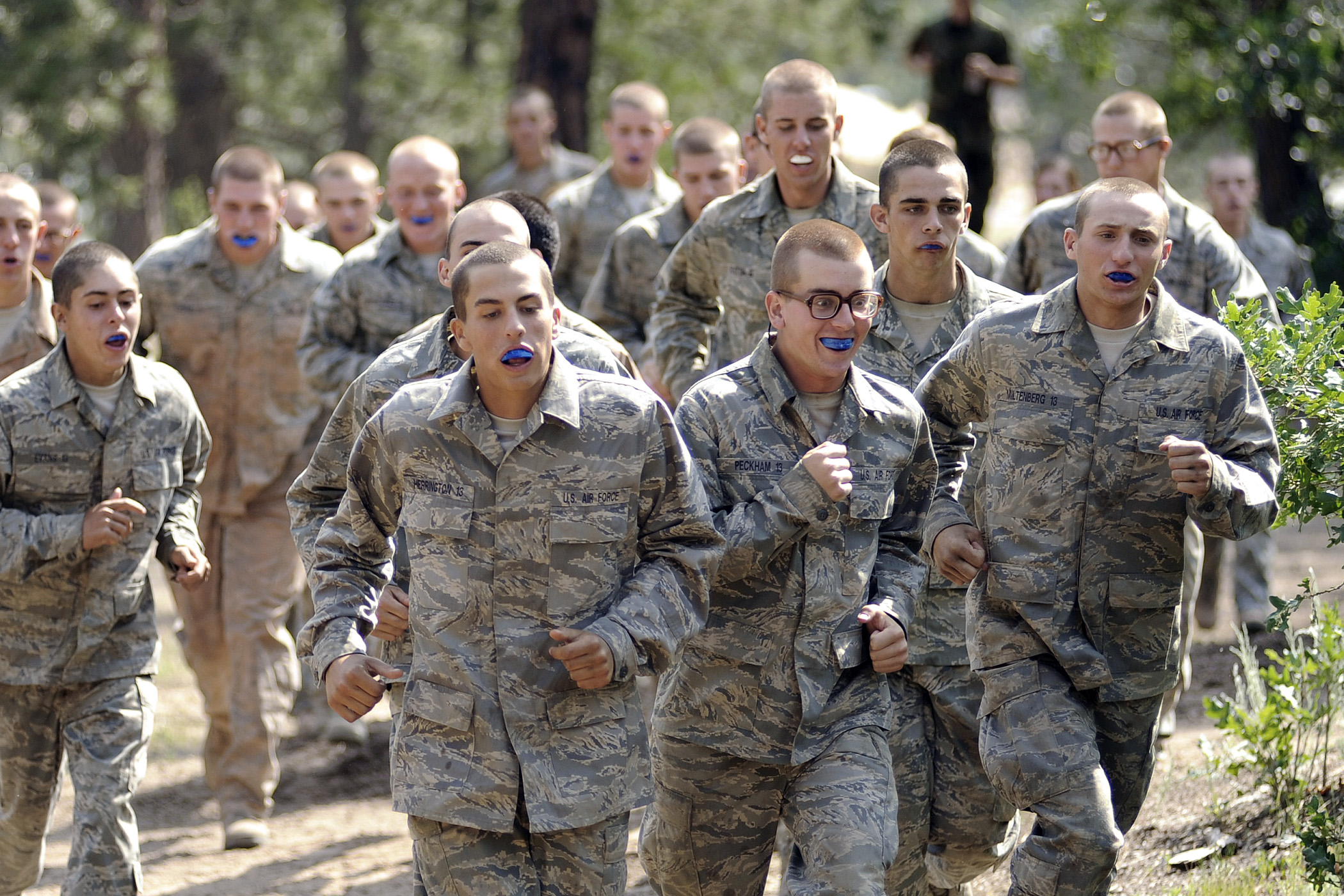 U.S. Air Force Academy, CO -- Basic Cadets assigned to the Jaguars squadron sprint to their next tasking during the Obstacle Course, or O-Couse as it is more commonly reffered to, in Jacks Valley July 21. Basic cadet training started June 25 and continues through Aug. 1. The Class of 2013 will swear the Honor Oath at their Aug. 5 acceptance parade, when they earn their status as fourth-class cadets. The fall academic semester begins Aug. 6. U.S. Air Force Photo/Dennis Rogers